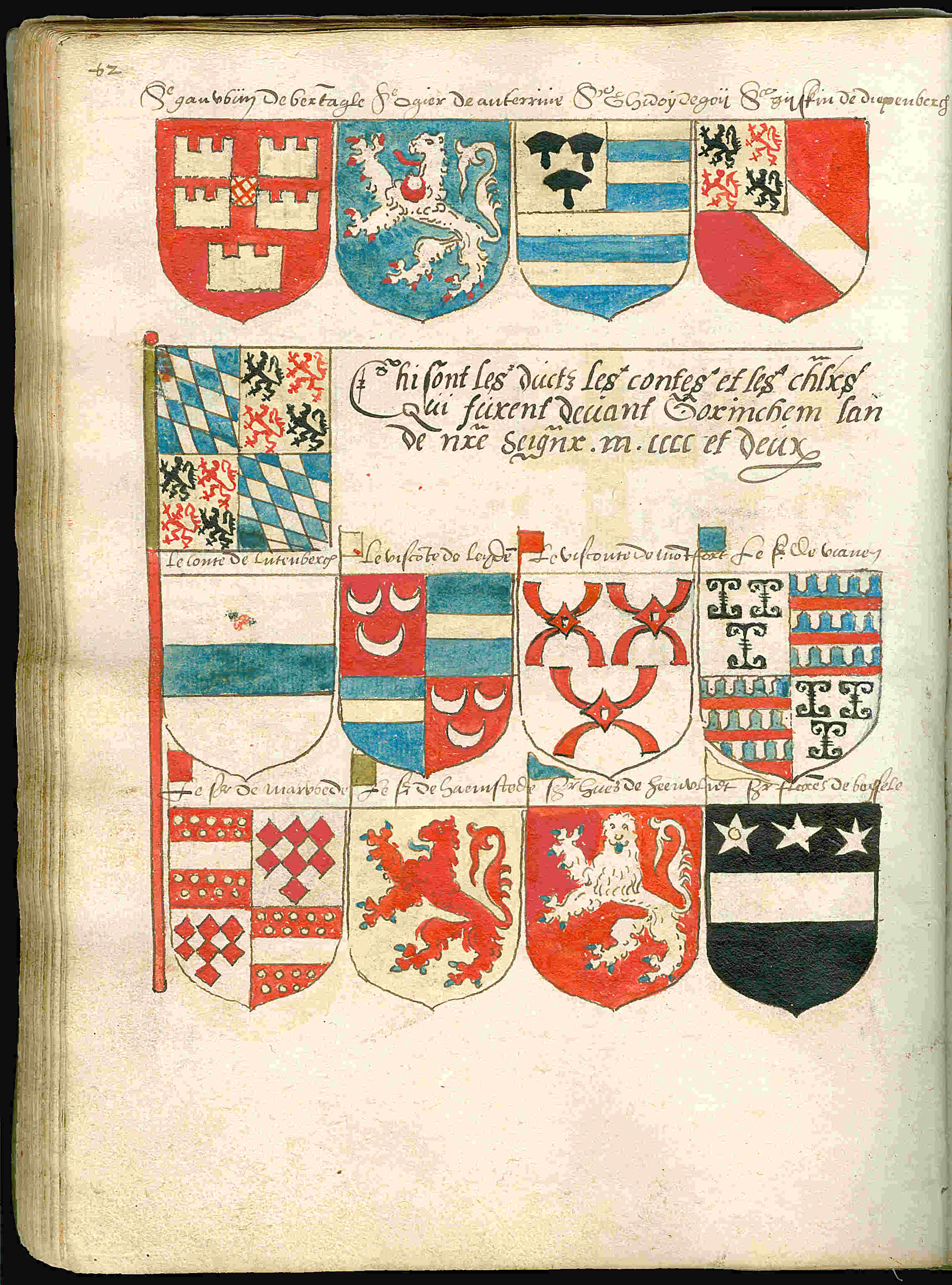 Page 62 from a copy of the Beyeren armorial / Wapenboek Beyeren from ca. 1600. The original Beyeren armorial from 1405 can be viewed at the website of the KB